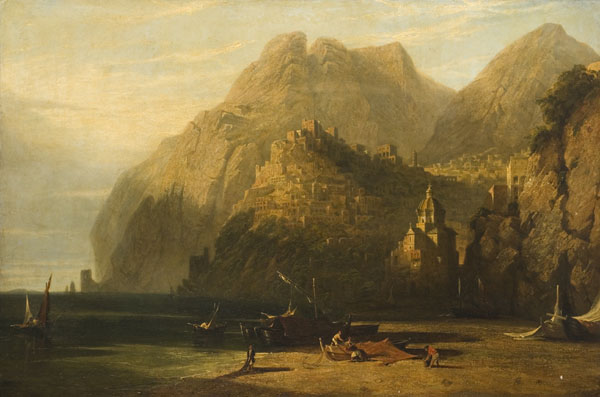 William Linton (1791-1876). Positano, Gulf of Salerno.1840s.